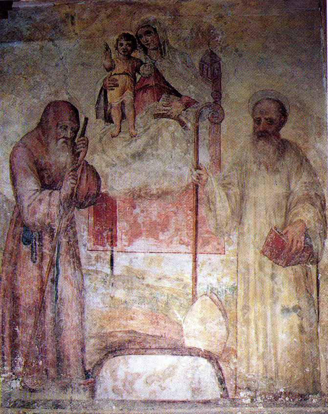 Joachim of Fiore and San Francesco of Paola